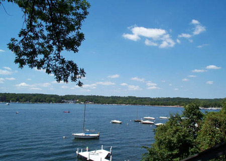 picture taken summer 2005